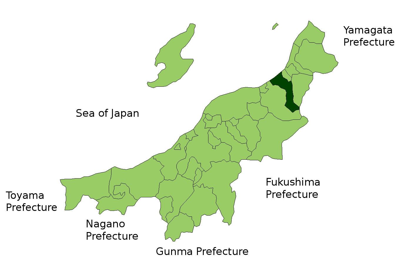 Location Map of Tainai in Niigata Prefecture, Japan